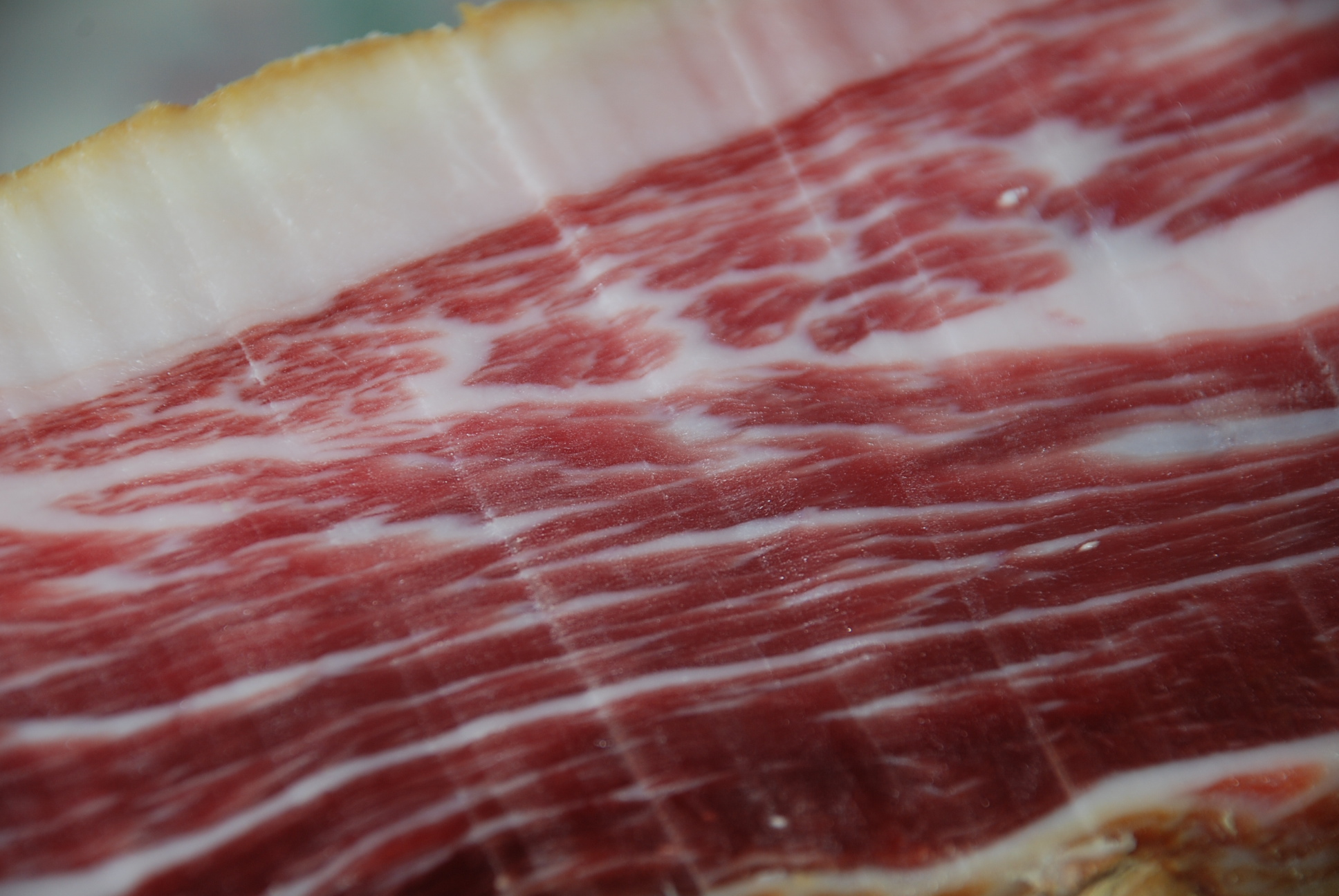 Ham of Guijuelo (Salamanca, Castile and León).